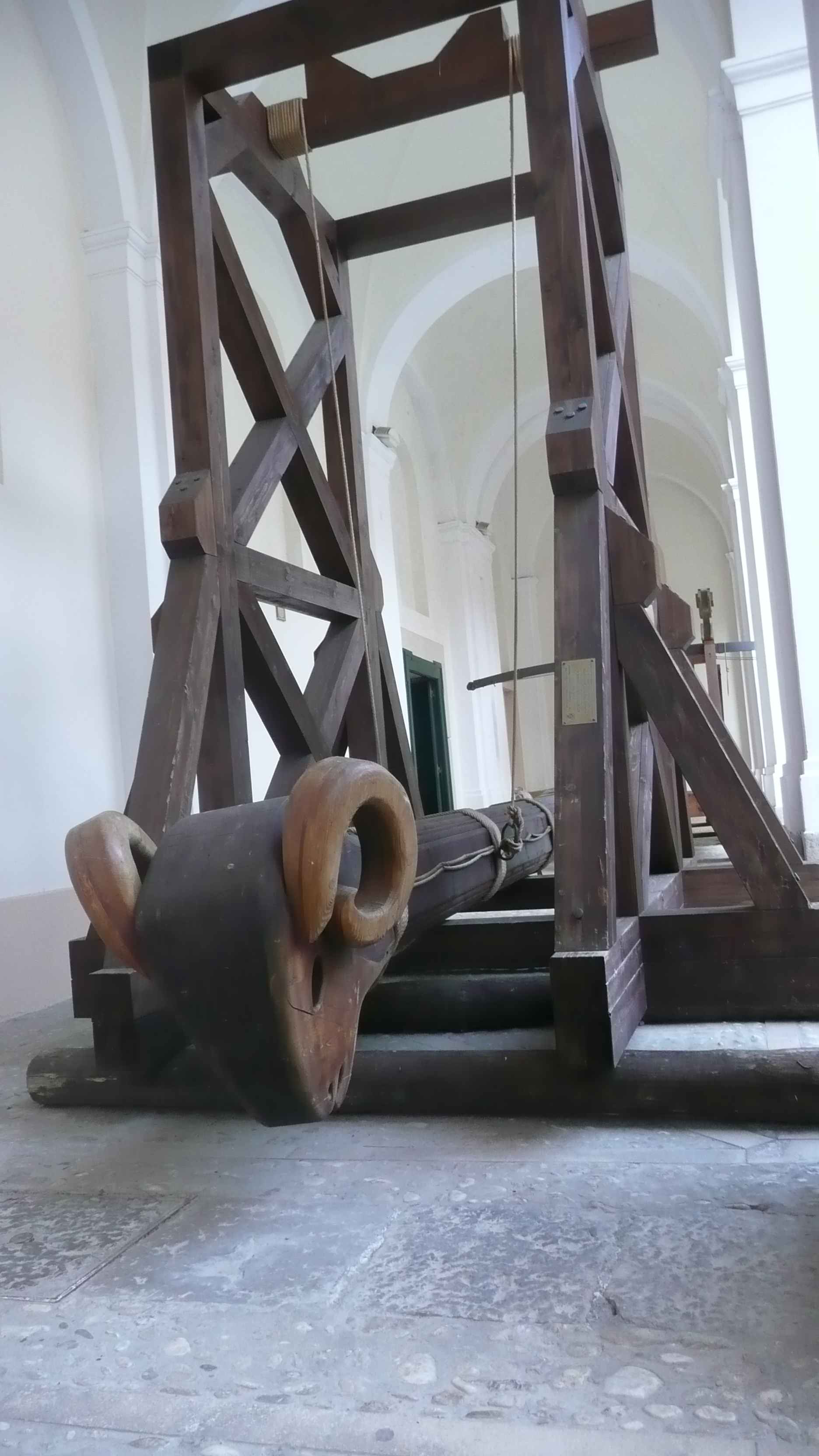 medieval battering ram, Mercato San Severino, Italy, town hall